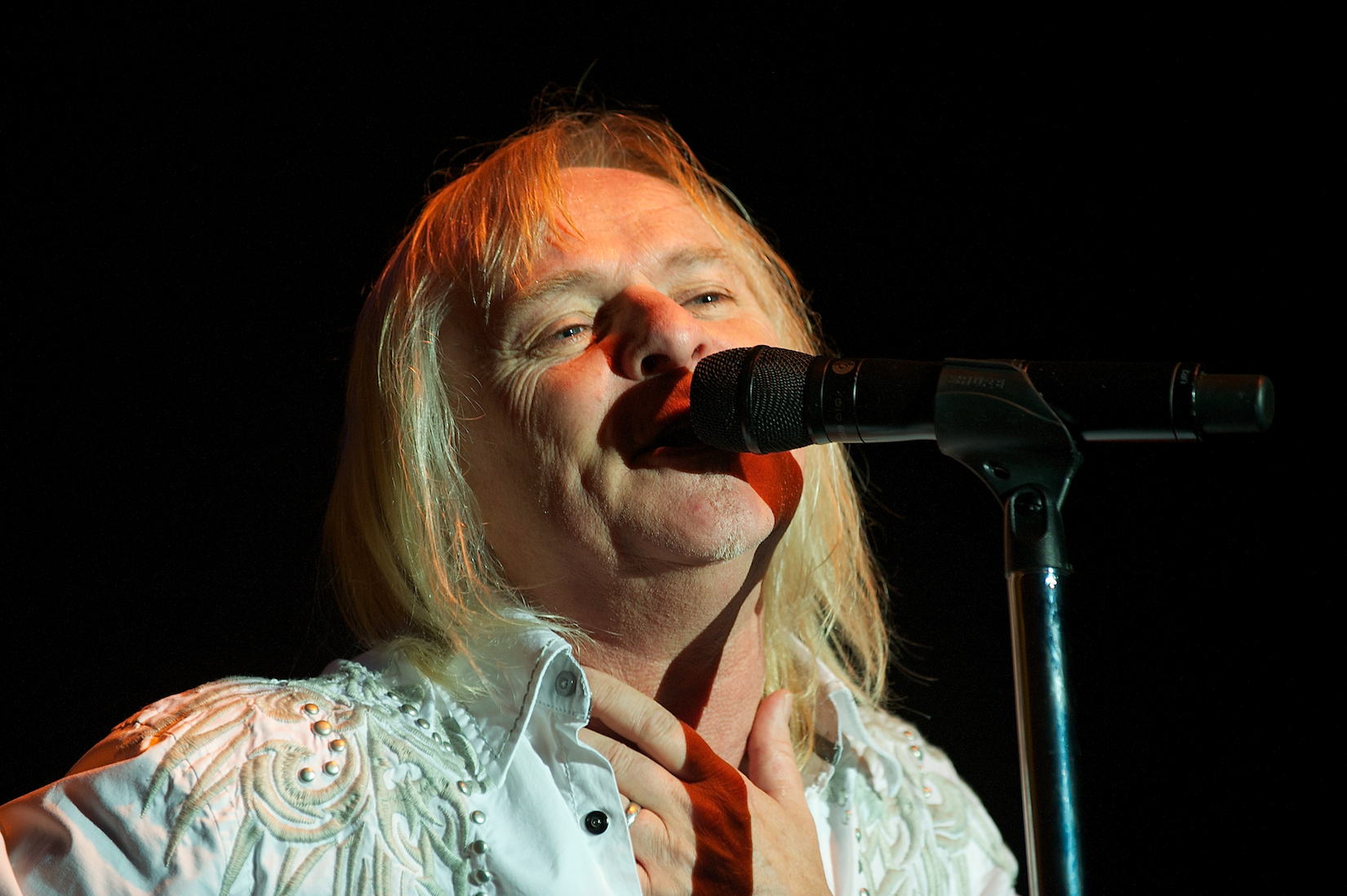 Picture of Bernie Shaw, singer of Uriah Heep, 2011